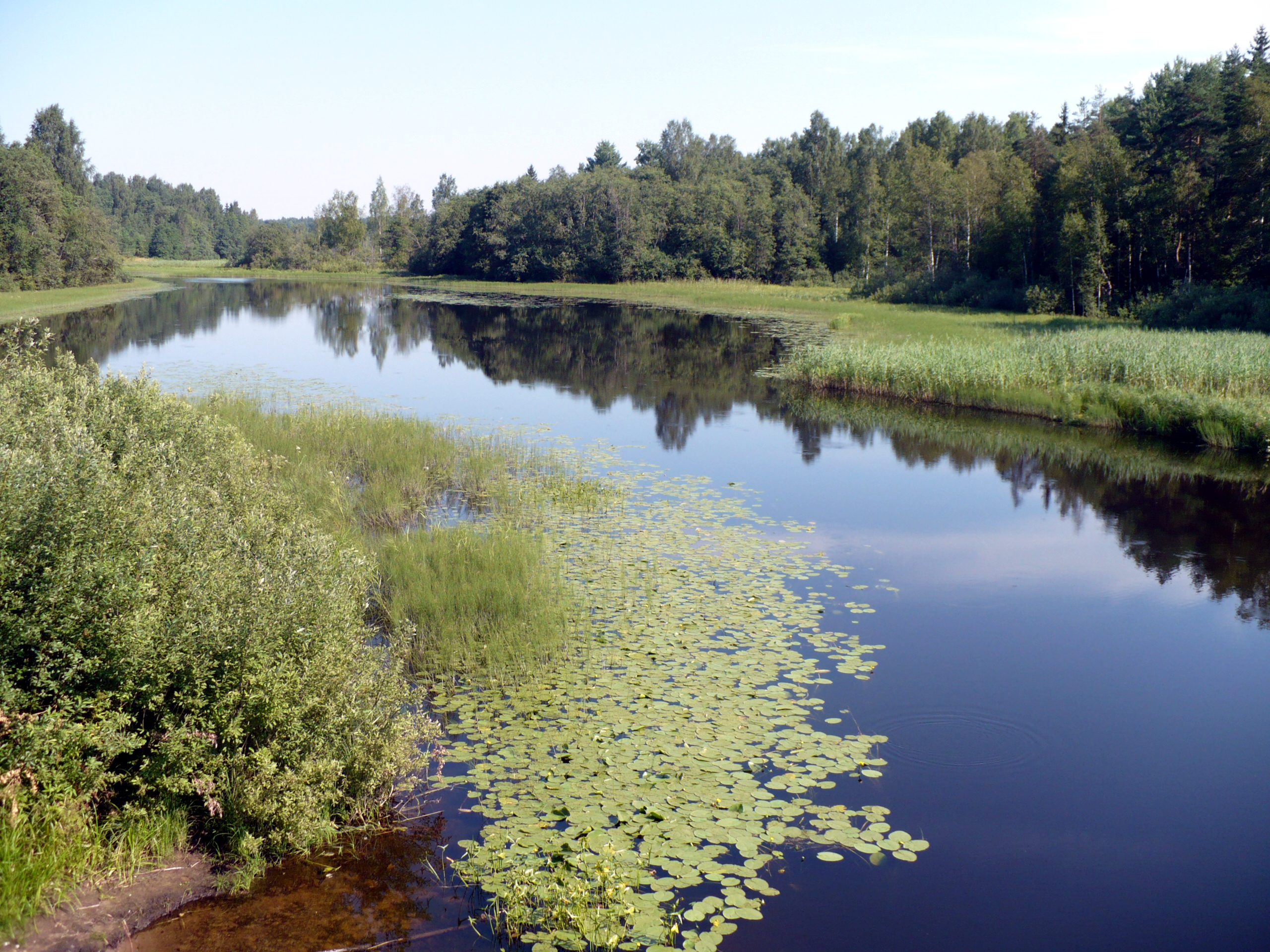 River Peretna near its source in Okulovskiy District, Novgorod Region, Russia